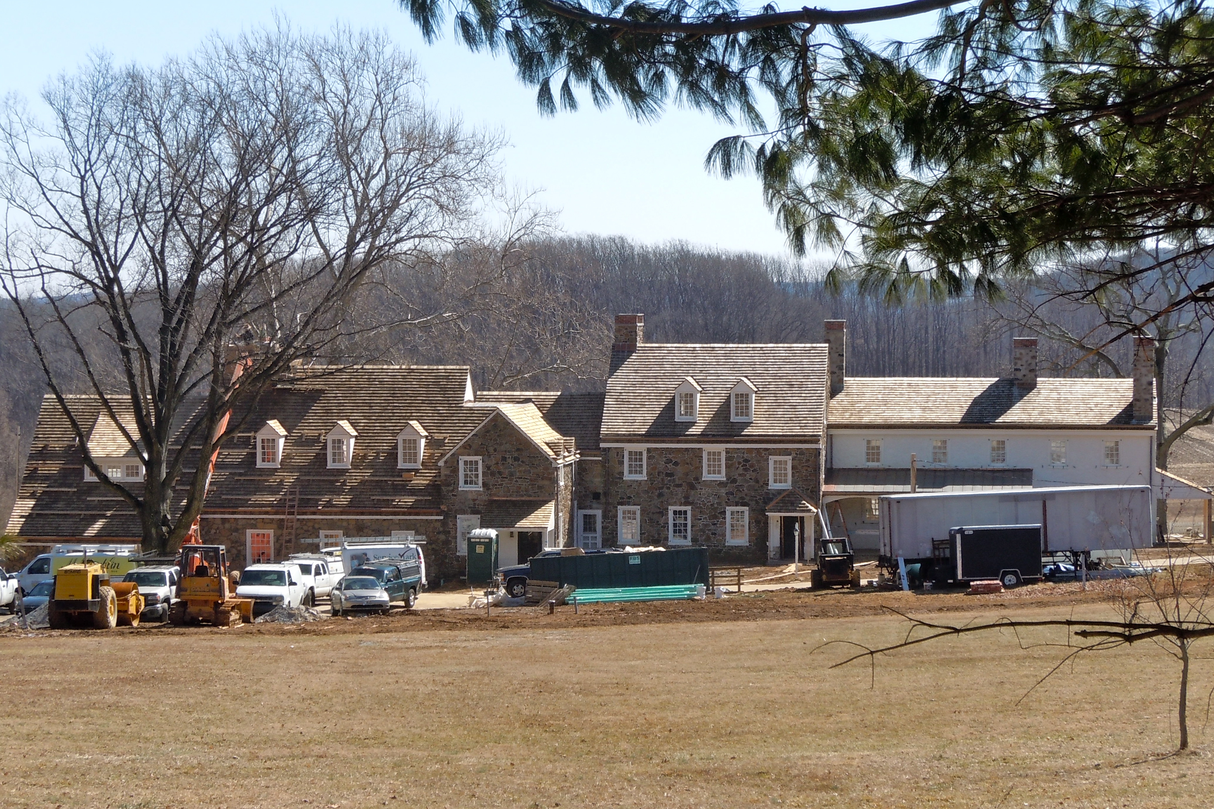 Strickland-Roberts Homestead on the NRHP since January 30, 1978. Located 3 miles (4.8 km) south of Kimberton on St. Matthews Road, near Birchrunville, in West Vincent Township, Chester County, Pennsylvania. A construction company is run from this location, and perhaps working on the building itself.